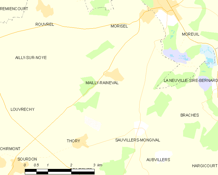 Map of French municipality Mailly-Raineval